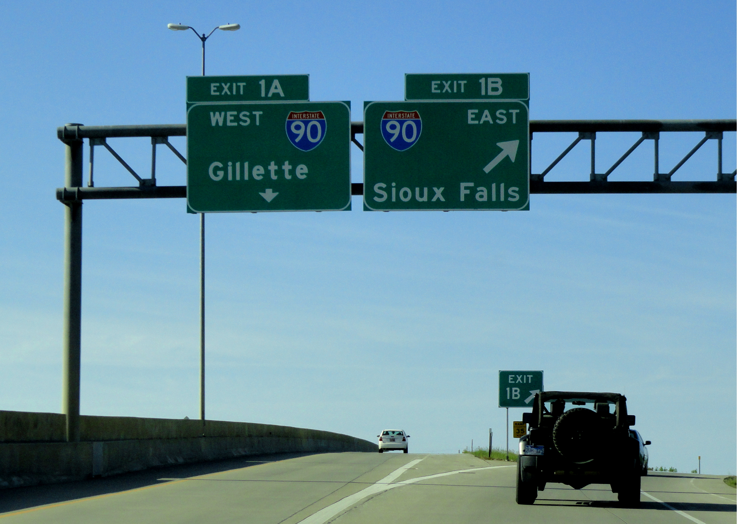 Interstate 190 northern terminus at Interstate 90 in Rapid City, South Dakota.